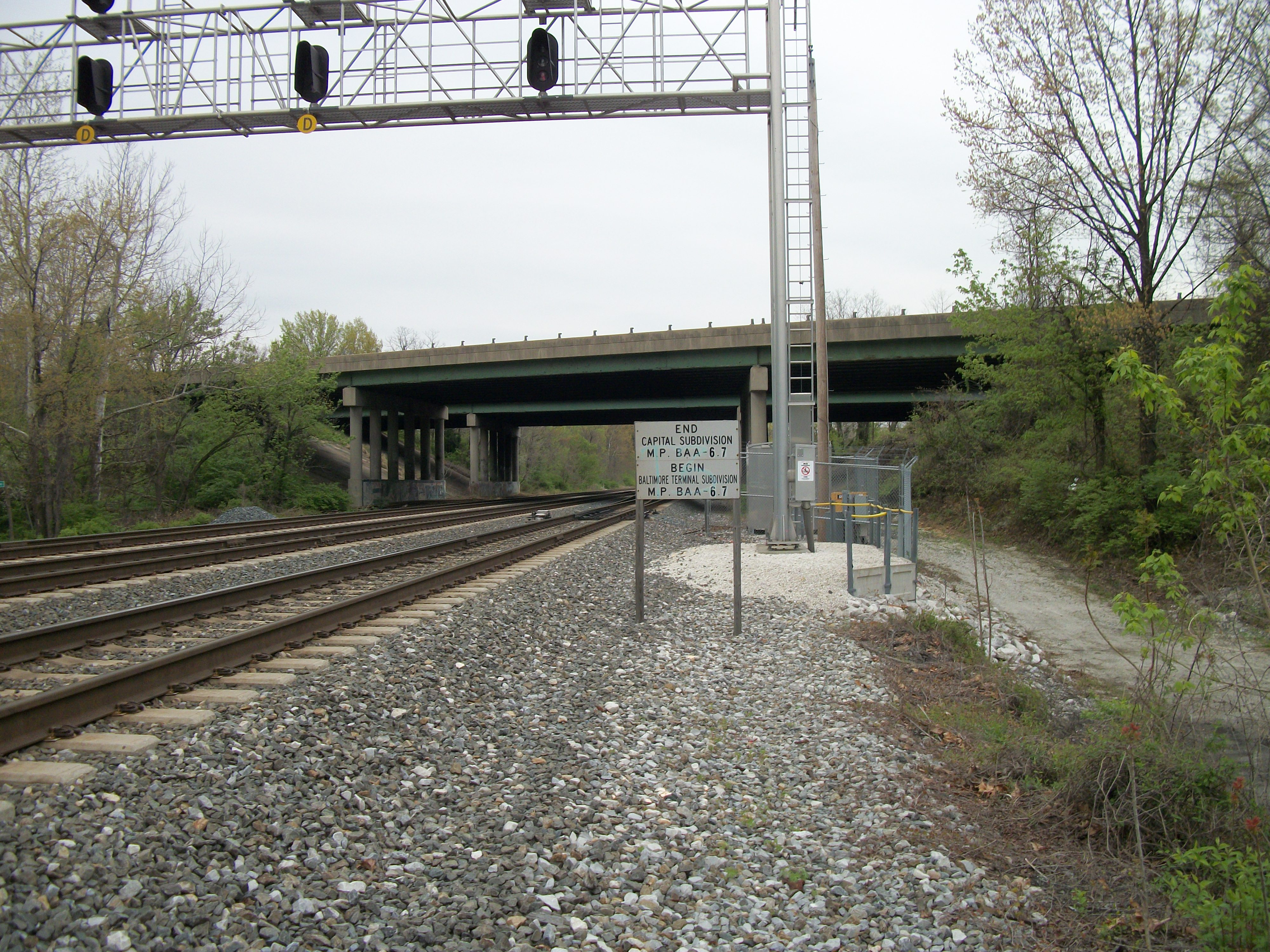 The northern terminus of the CSX Capital Subdivision and southern terminus of the Baltimore Terminal Subdivision, two former Baltimore and Ohio Railroad lines at St. Denis (MARC station) at the intersection of Arlington and Maple Avenues in the St. Denis section of Halethorpe, Maryland. The bridges for Interstate 195 are in the background.